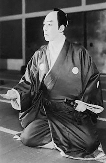 Kichiemon Nakamura I (1886–1954) as Ōishi Kuranosuke, in Matsuura no Taiko